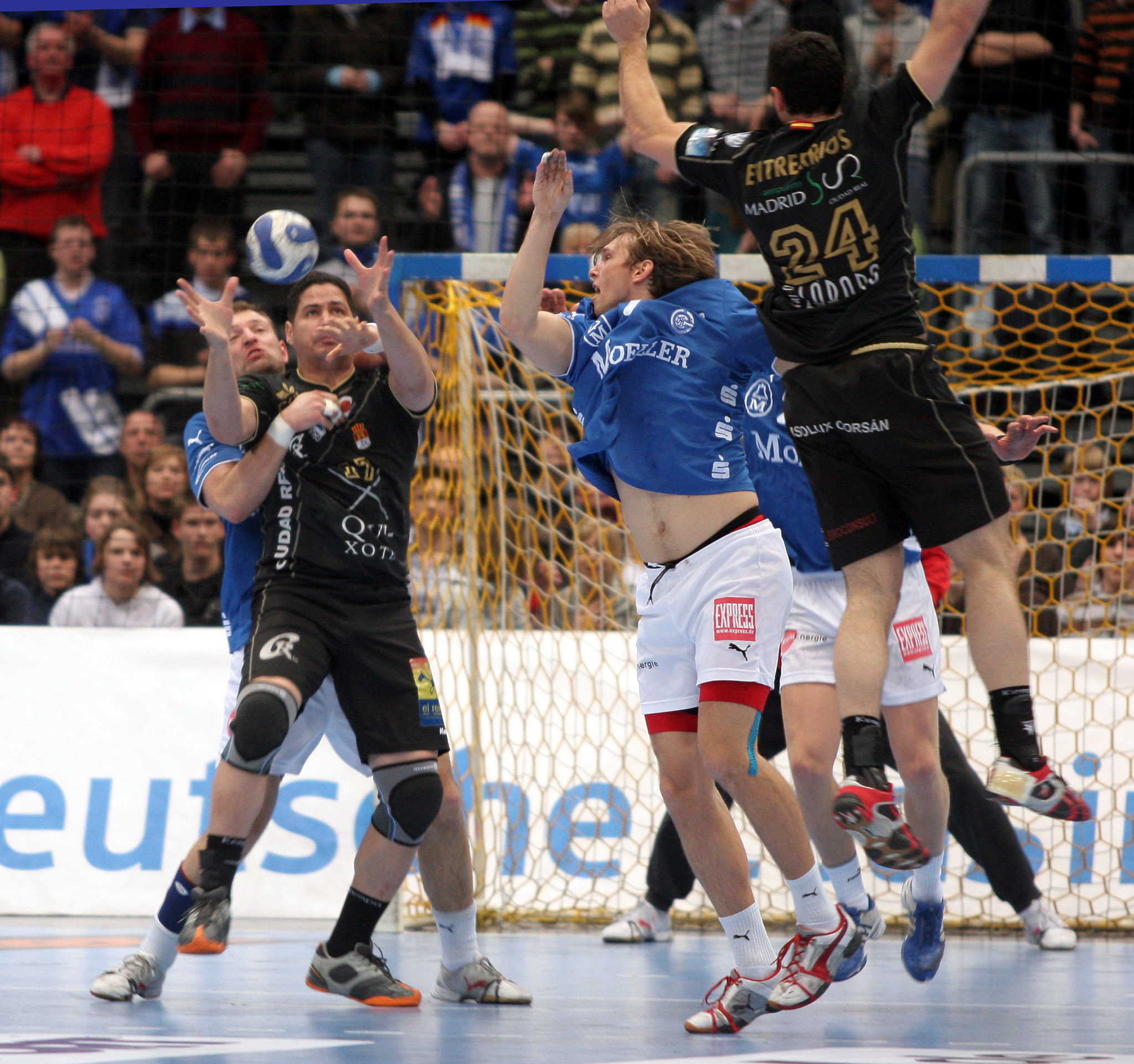 Rolando Uríos, handball player of BM Ciudad Real (Spain), in the Kölnarena during the champions league game VfL Gummersbach vers. BM Ciudad Real on February 20th, 2008. Series of 4 images